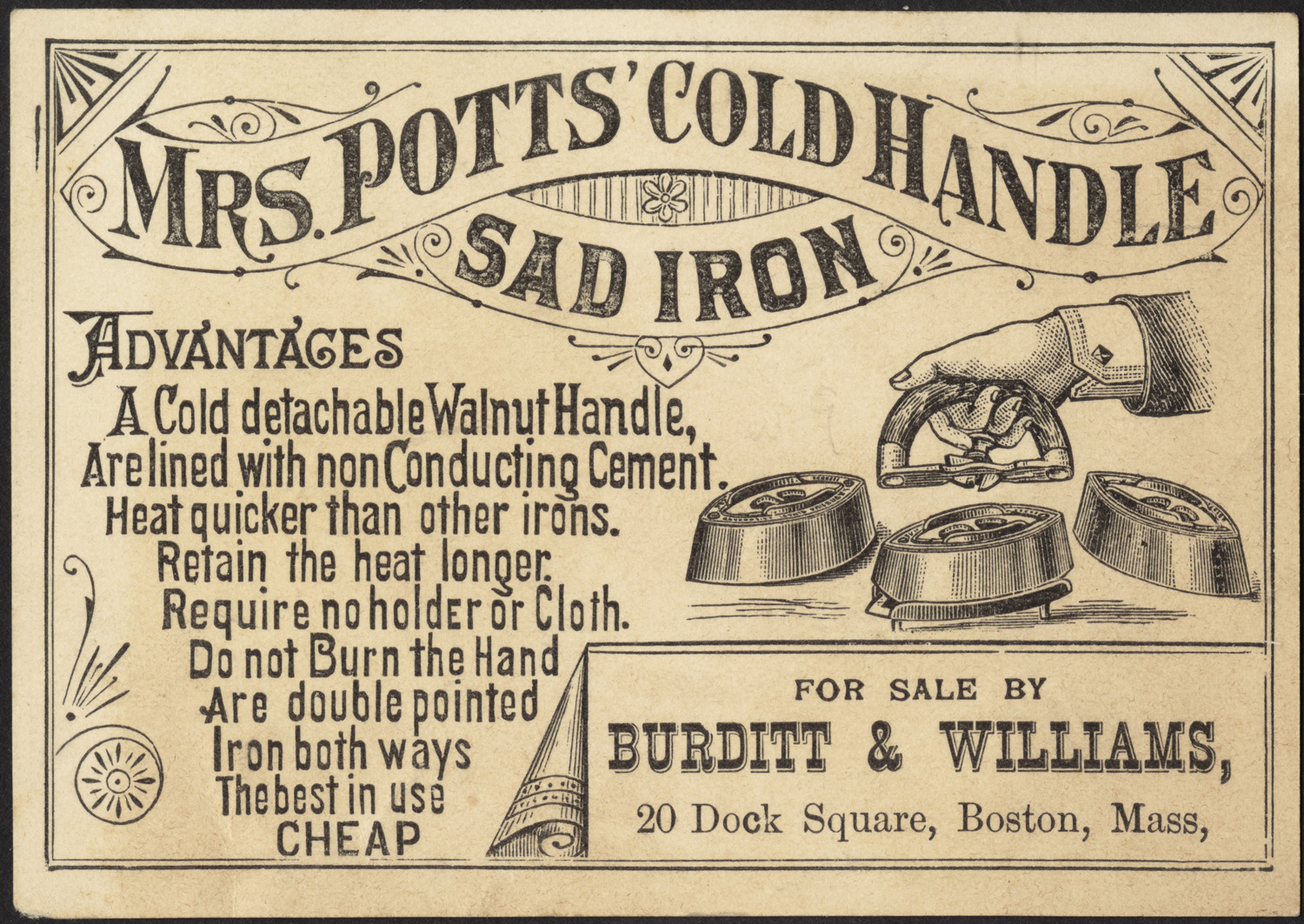 Mary Florence Potts sad iron with detachable wooden handles